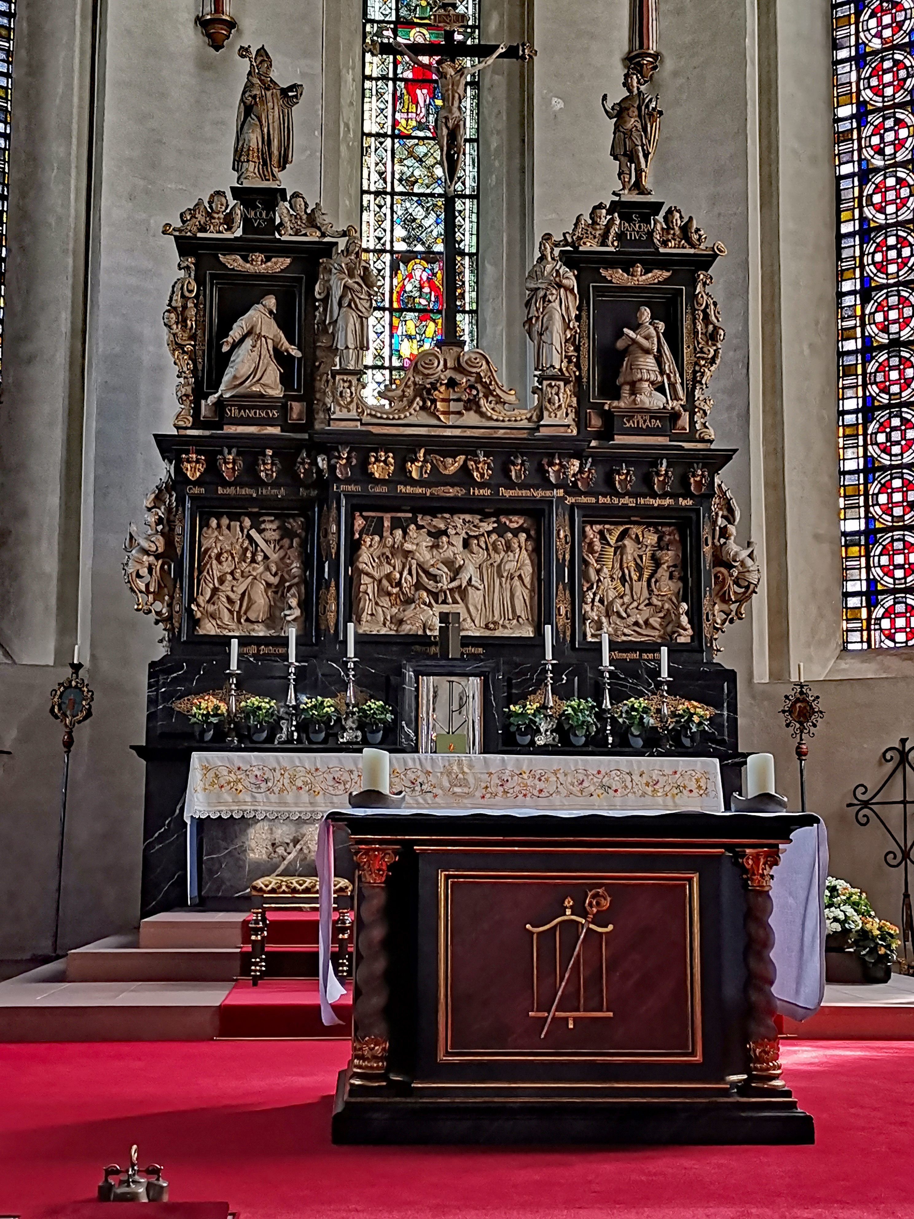 Arnsberg (Sauerland, Germany)